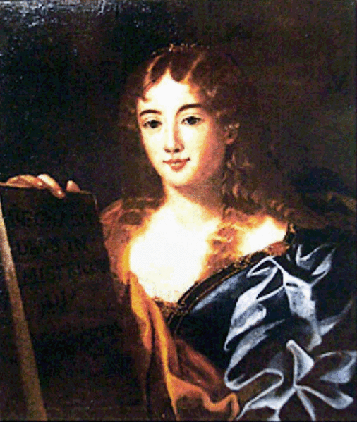 ragusan book, around 1600, is public domain.